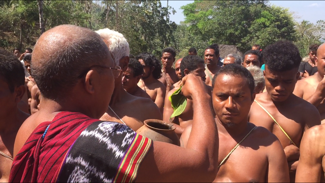 Baha Liurai. Take away the bad luck or maybe some curse because who knows, some of the people may break some of the rules. The one holding the bowl is my uncle, Tiu Miguel, he is the eldest son of the ritual power clan.... The betel leaf symbolize the green, the fertility value, the prosperity, while the water symbolizes the cold, the peaceful condition, the calm, the quiet, tranquility. So the green (matak, malus) and the malirin (cold, water) means prosperity in a peaceful society. This is the objective of our society and our existence... .